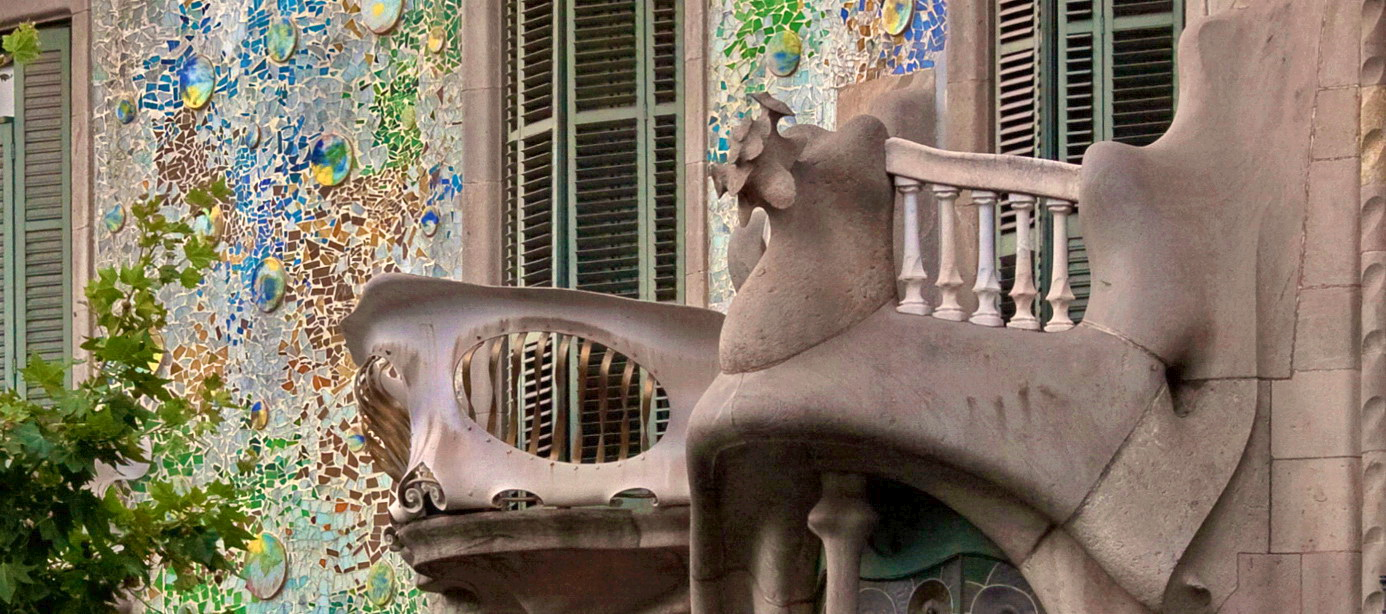 Balconies of the Casa Batlló, one of the famous Art Nouveau buildings in the Eixample district of Barcelona, Spain. It was built by the architect Antoni Gaudí at the beginning of the twentieth century and is located on the Passeig de Gràcia as part of the Illa de la Discòrdia.